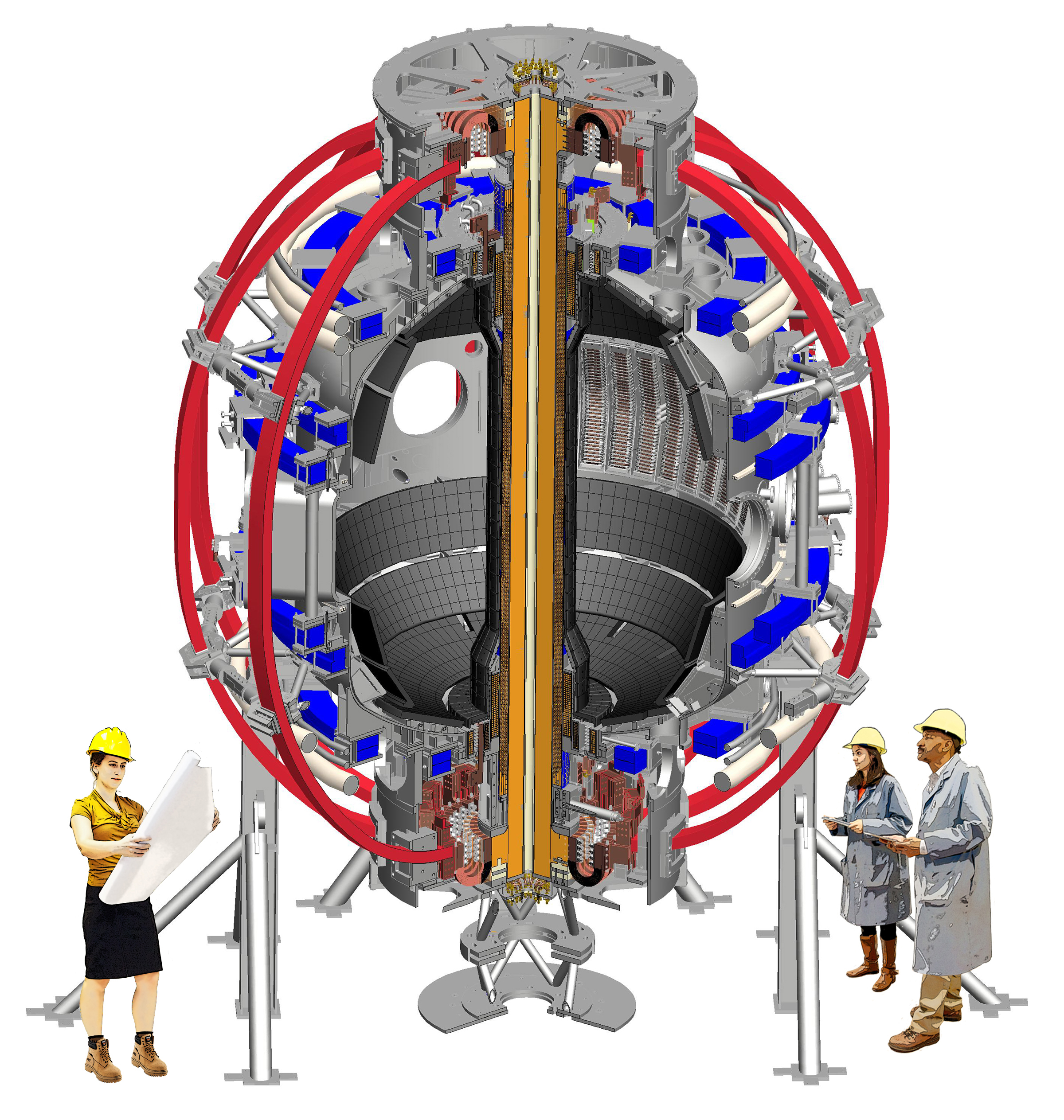 CAD drawing of National Spherical Torus Experiment (NSTX). A 90° angle is cut open.